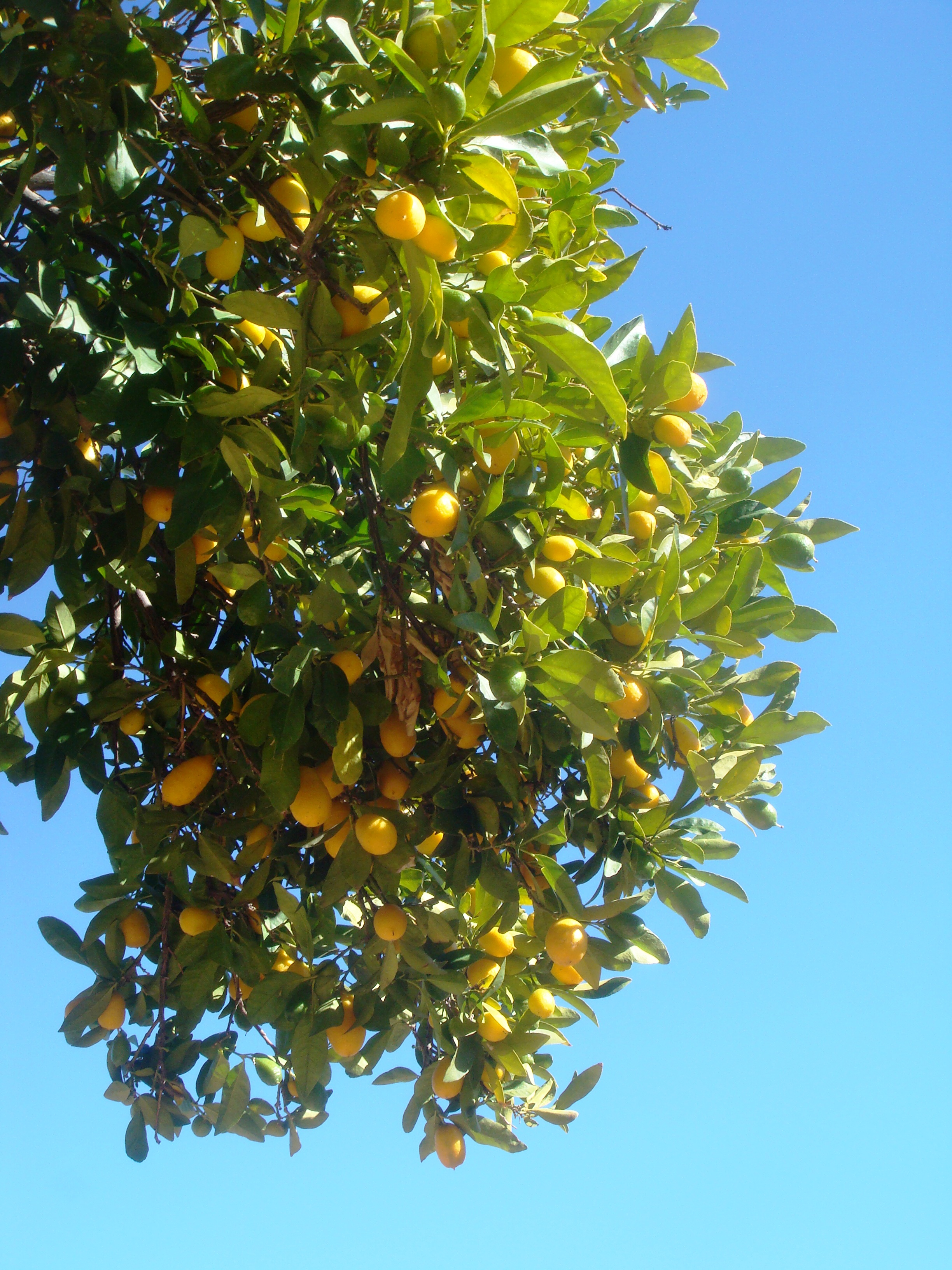 The Kumquat, Fortunella japonica, syn: Citrus japonica. cultivated in garden at Arizona State University, Tempe, Arizona (Gammage Auditorium).